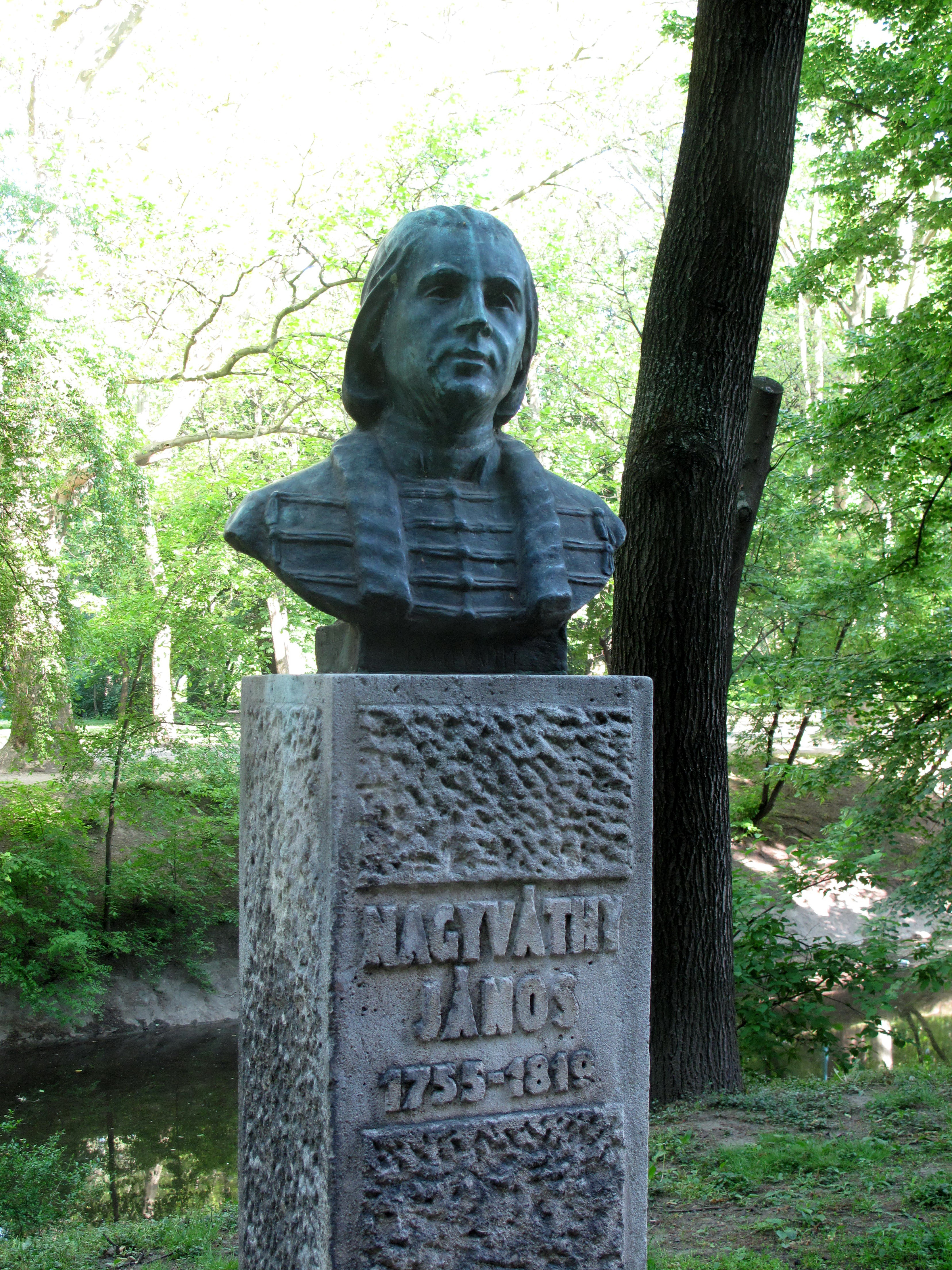 János Nagyváthy bust in Budapest District XIV, City Park. Sculptor: László Vastagh. Erected in 1960.